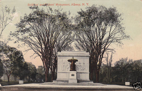 Postcard of the Soldiers and Sailors' Monument in Albany, New York